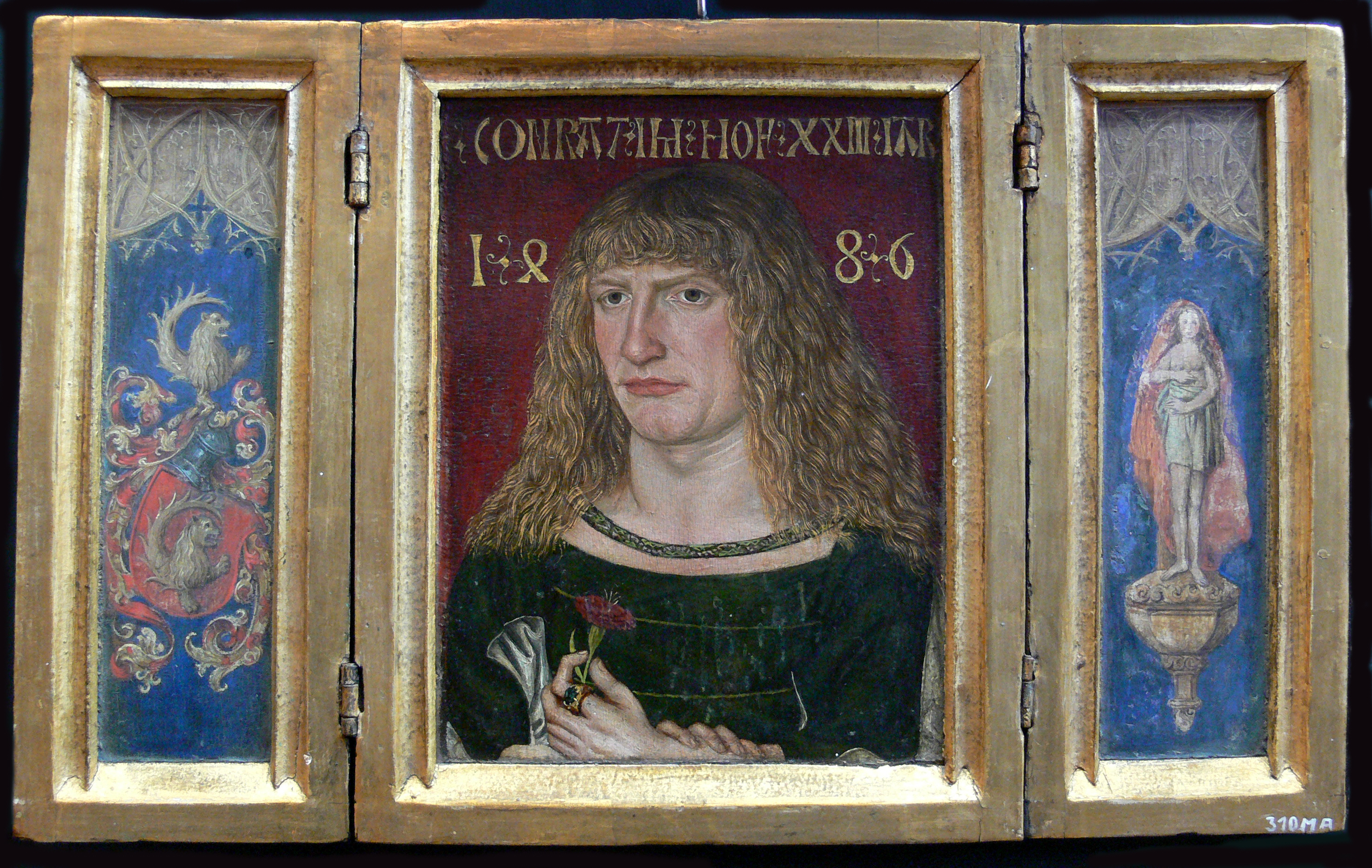 Portrait of Conrat Imhof